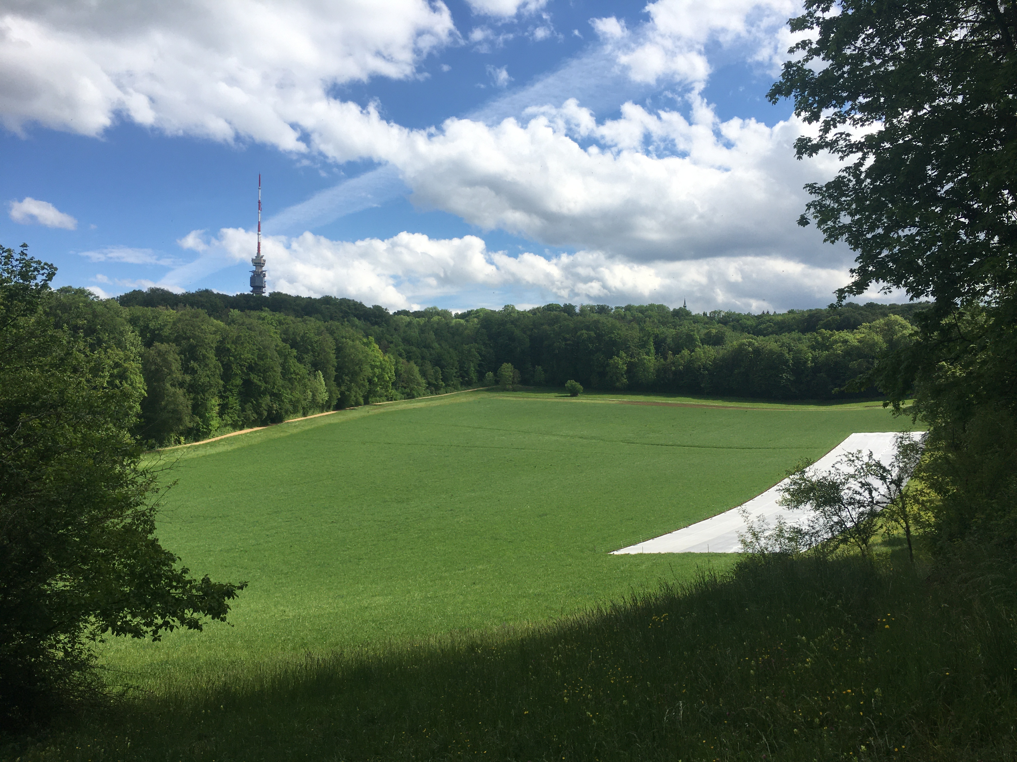 Chrischona Valley behind the hill of Saint Chrischona